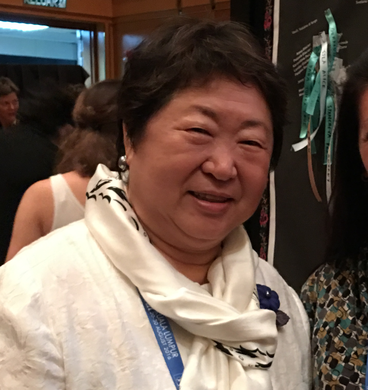 Prof. Hong Kum Lee (Korea Polar Research Institute (KOPRI)) in SCAR opening ceremony